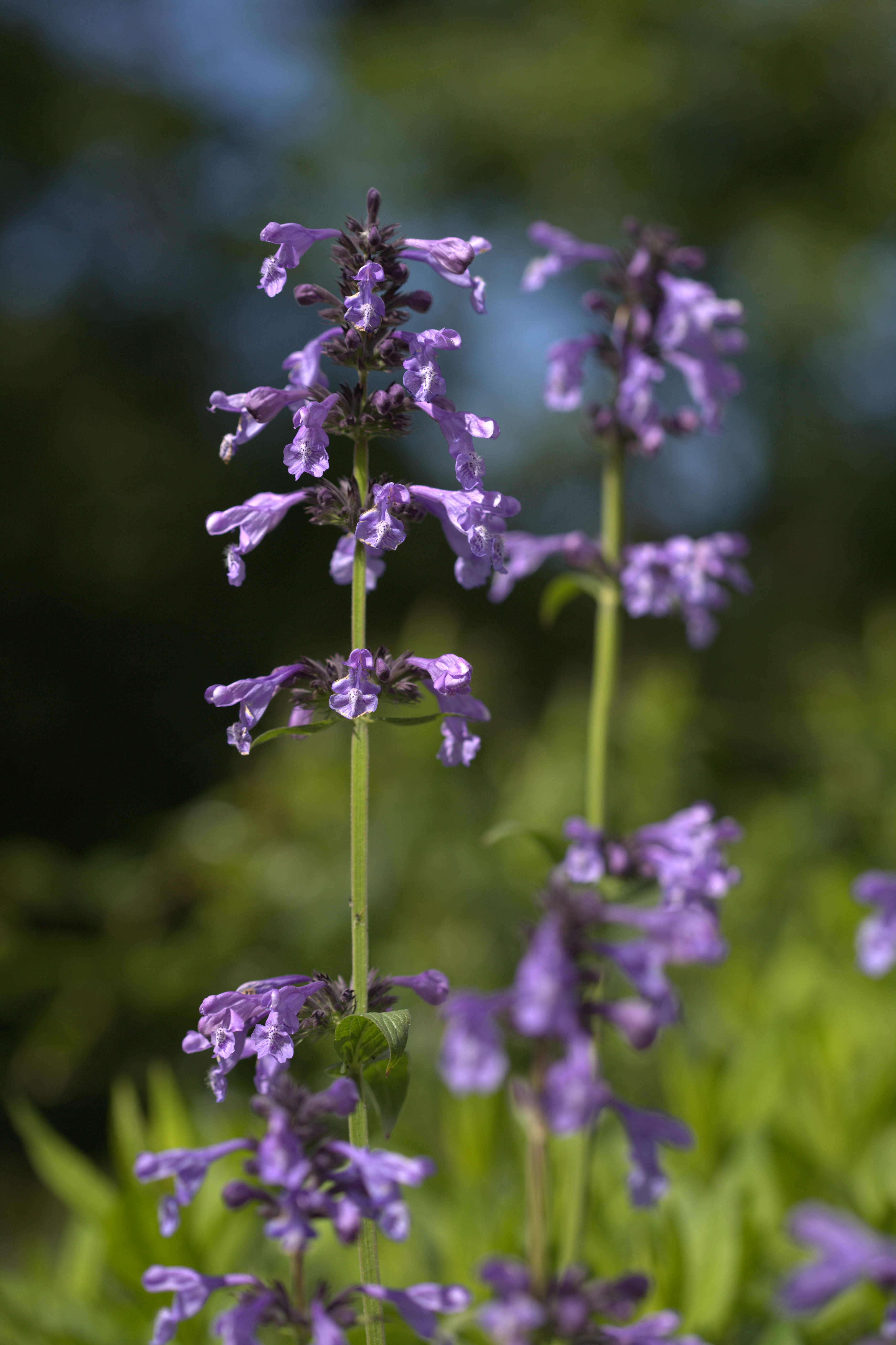 Photo taken at Gothenburg botanical garden. Specimen id: 1989-1077 p G Plant collected in 1989 from a garden (Lynga).